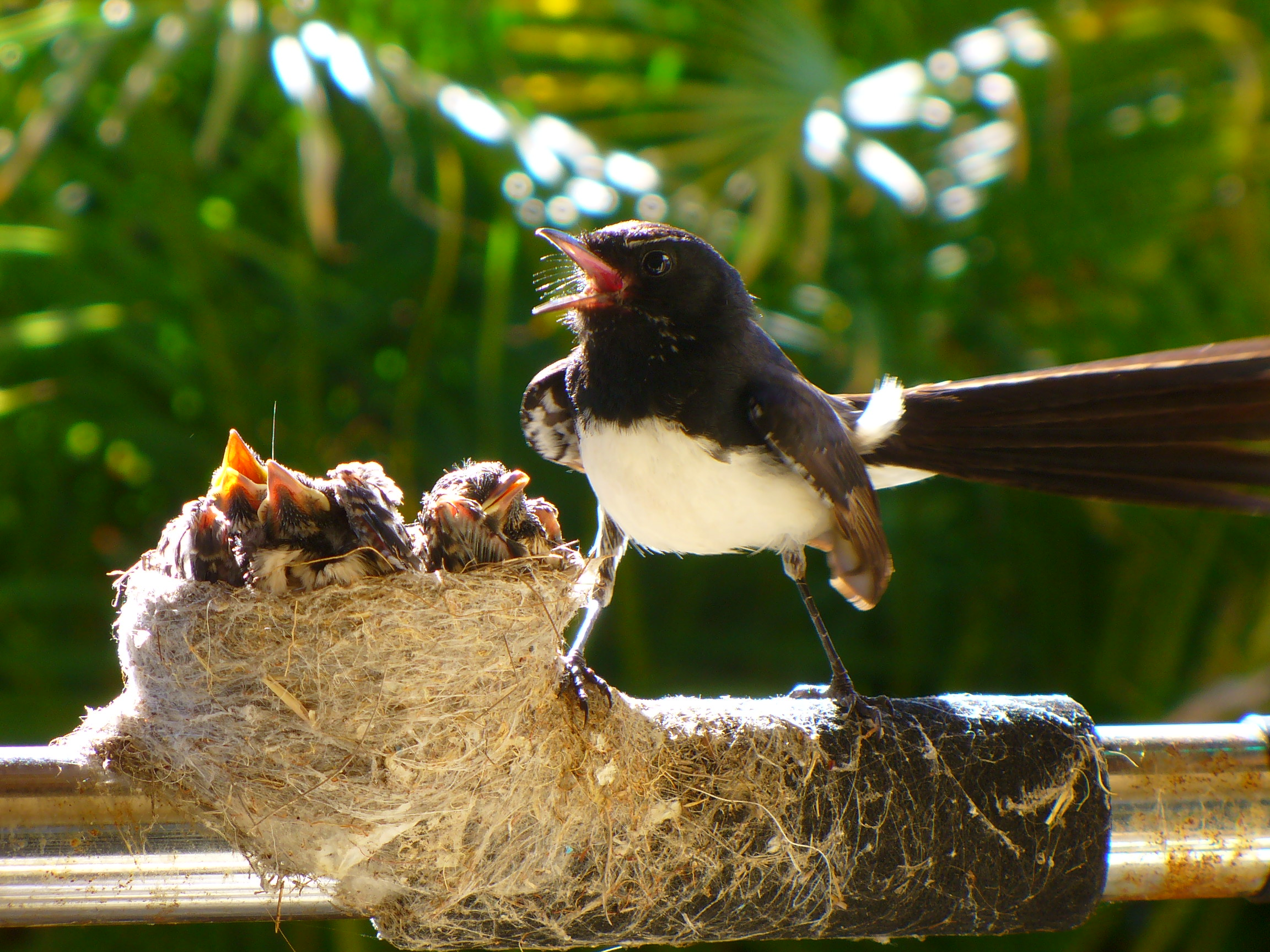 Taken in Brassall Queensland Australia by A.Wutke